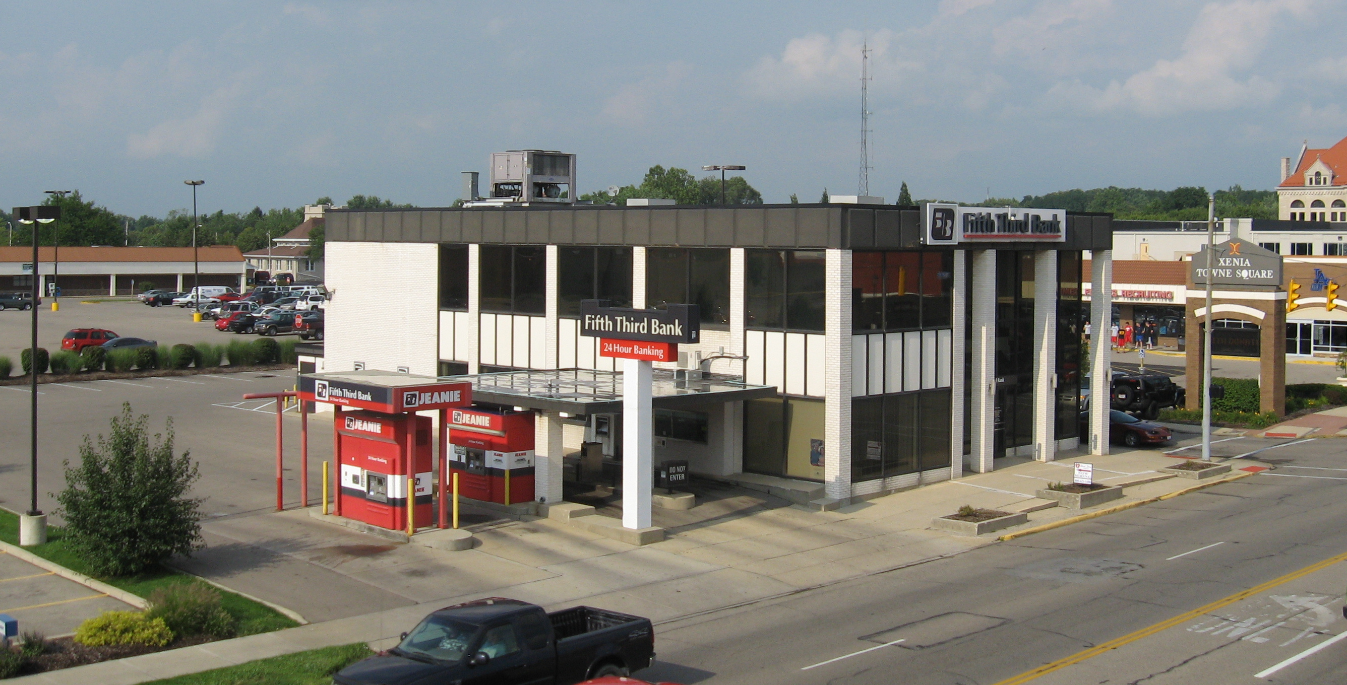 Fifth Third Bank (Xenia, Ohio, USA)